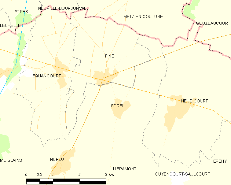 Map of French municipality Sorel